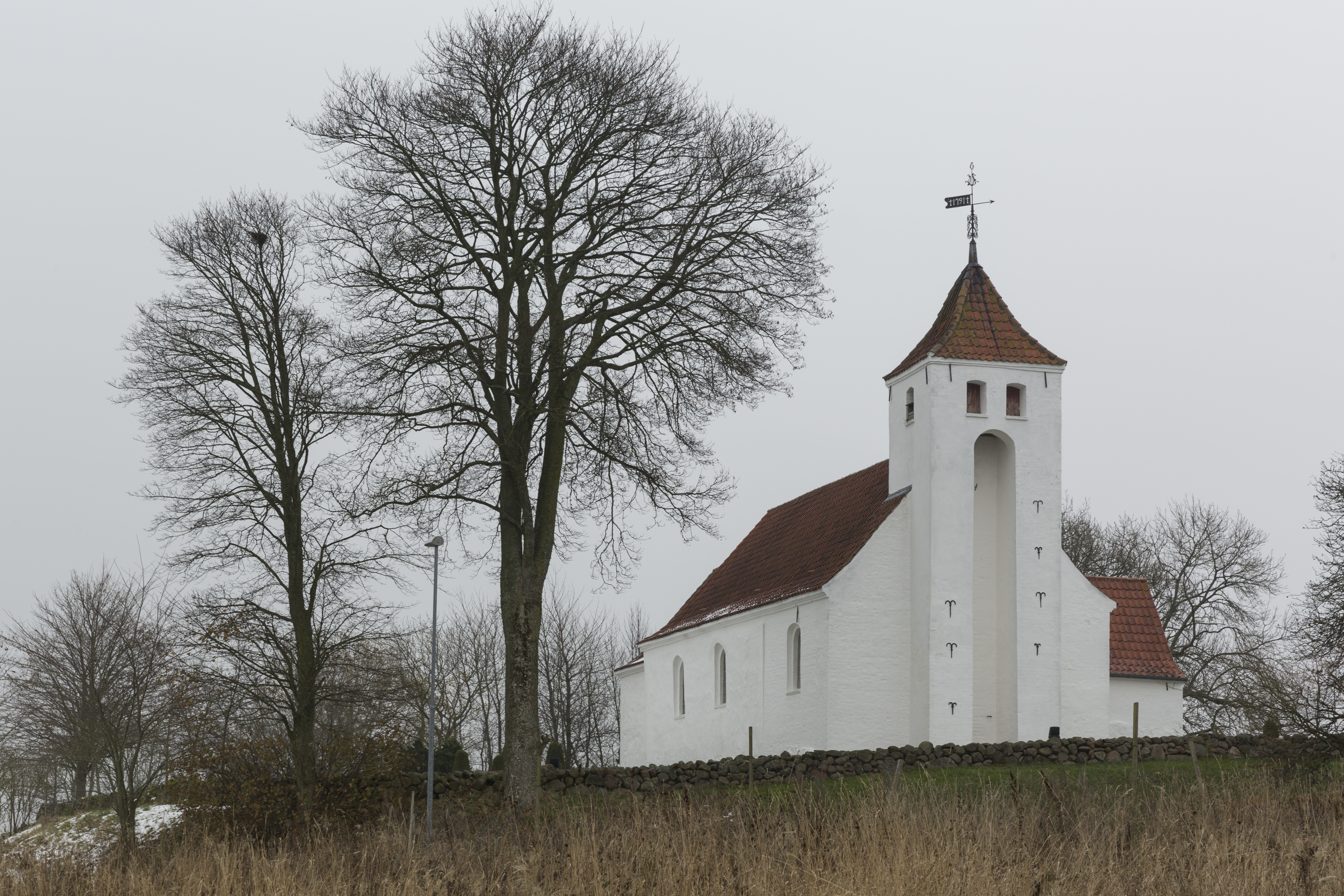 Tulstrup Church